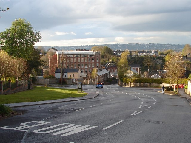 Donnybrook Commercial Centre The building with the light coloured roof, that is.